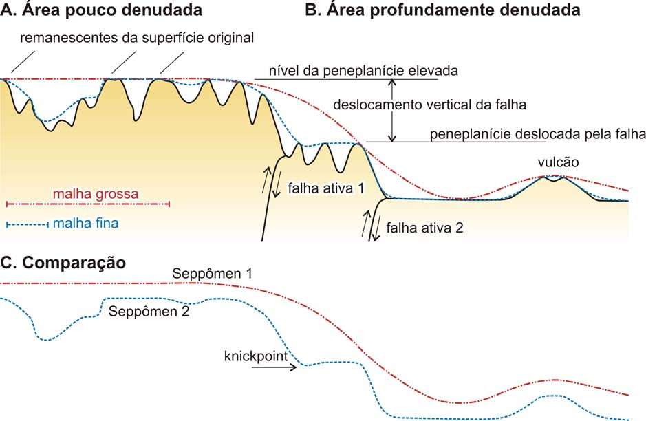 Principle of summit level map